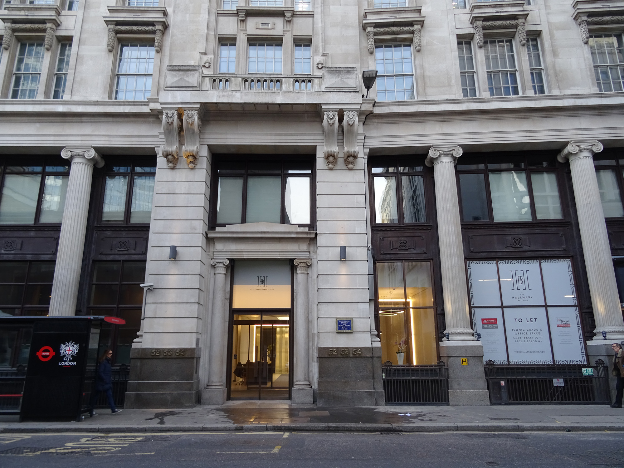 On this site stood Tylers' and Bricklayers' Hall 1538 - 1883 - 52-54 Leadenhall Street, London EC3A 2AD